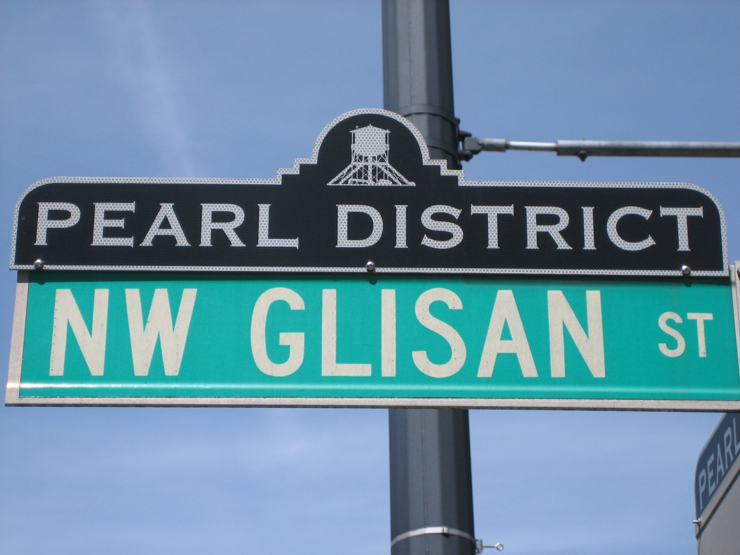 Pearl District street sign topper, Portland, Oregon